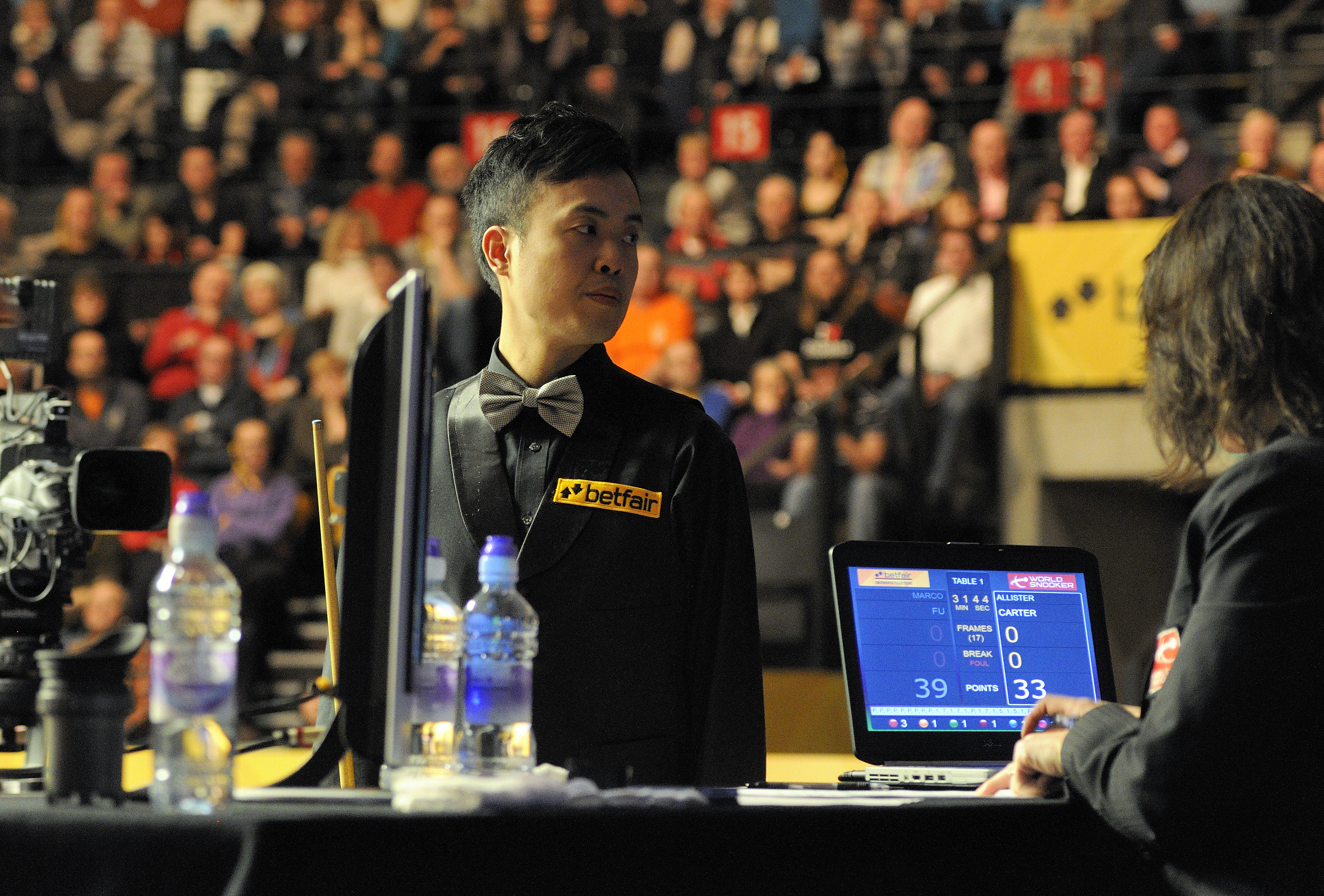 Picture taken in Berlin during the Snooker German Masters in 2013. Marco Fu and Michaela Tabb.